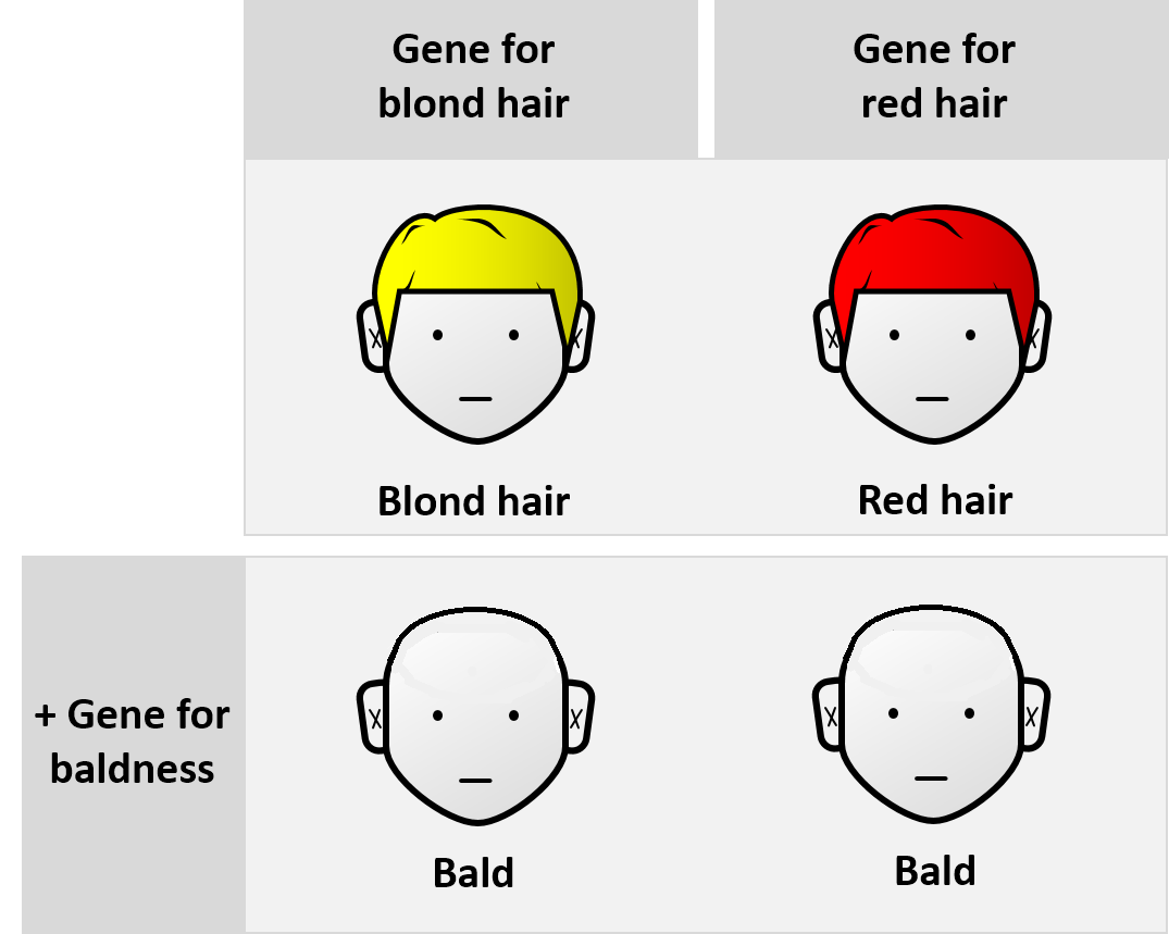 The gene for baldness is epistatic to those for red hair or blond hair. The baldness phenotype supersedes genes for hair colour and so the effects are non-additive.